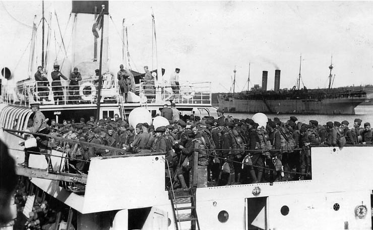 S.S. Traffic (White Star Line Ferry Lighter) Transferring troops to a transport for passage home to the United States, 1919. Location is probably Brest, France. This photo shows Traffic's superstructure, seen from off her the port quarter. The ship in the background is either USS Finland (ID # 4543) or USS Kroonland (ID # 1541). The original image is printed on postcard ("AZO") stock. Donation of Dr. Mark Kulikowski, 2007. U.S. Naval Historical Center Photograph.